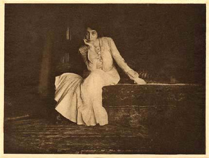 Miss de C [Camera Work, 17] ,1907 Photogravure, on Tissue 4 3/4 x 6 1/4 Klotz / Sirmon Gallery